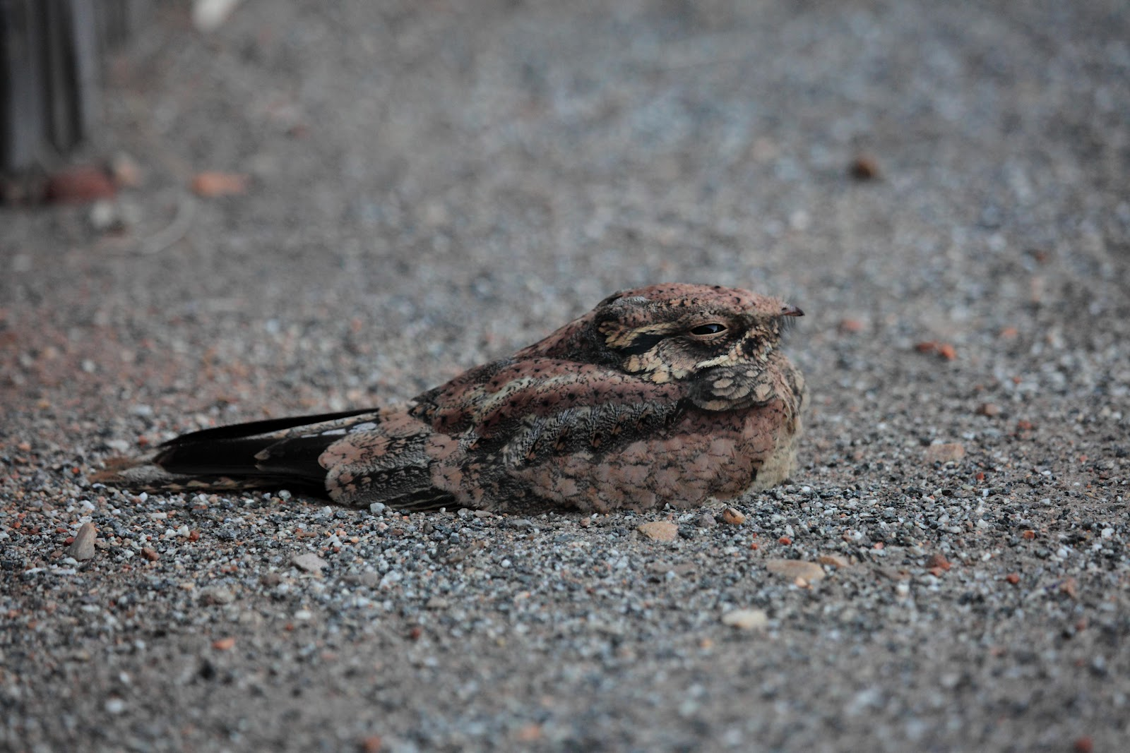 Spotted Nightjar (Eurostopodus argus), Northern Territory, Australia